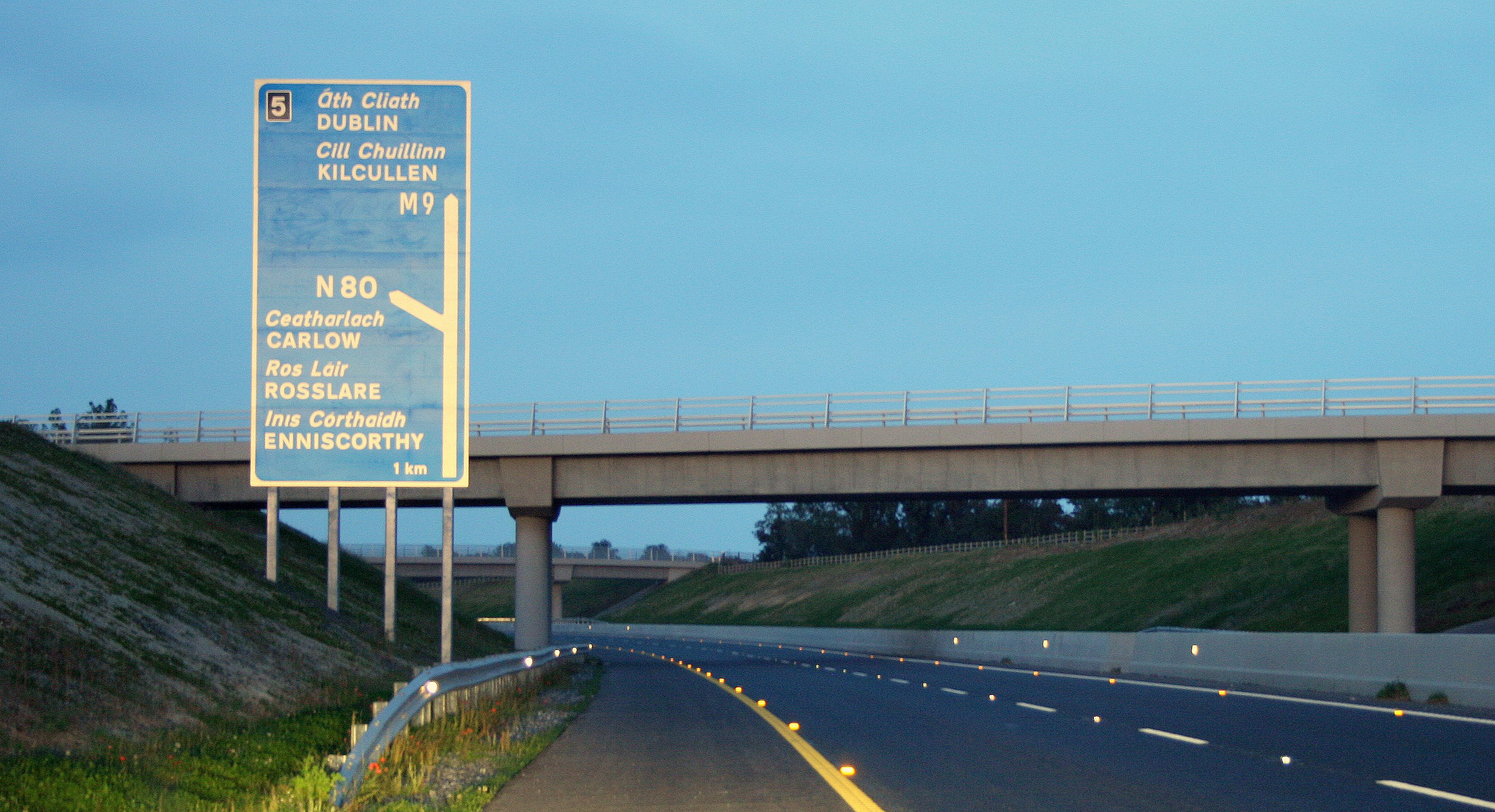 M9 Carlow bypass, Ireland